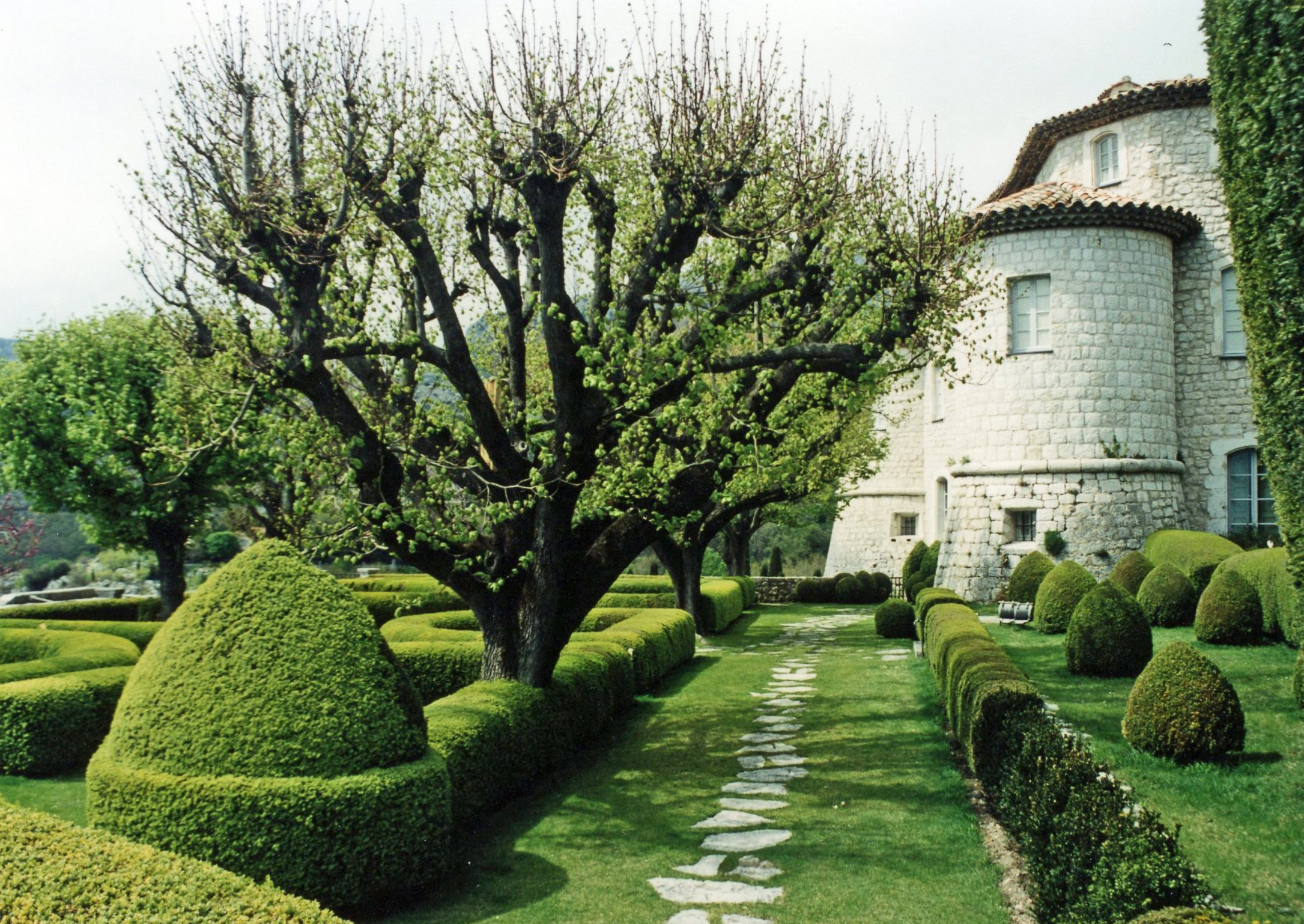 Gourdon Castle garden with topiary, Gourdon, Alpes-Maritimes département, France